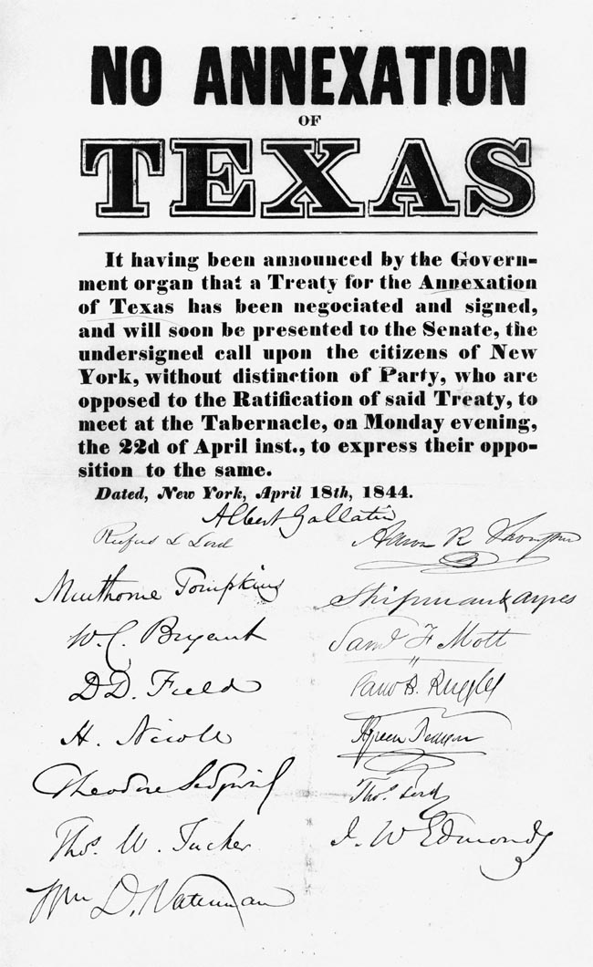 Image of anti-Texas annexation poster, April 18, 1844. New York. Signatures, including US stateman Albert Gallatin.